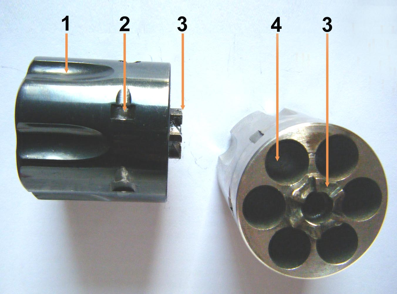 2 Cylinders (weapons)